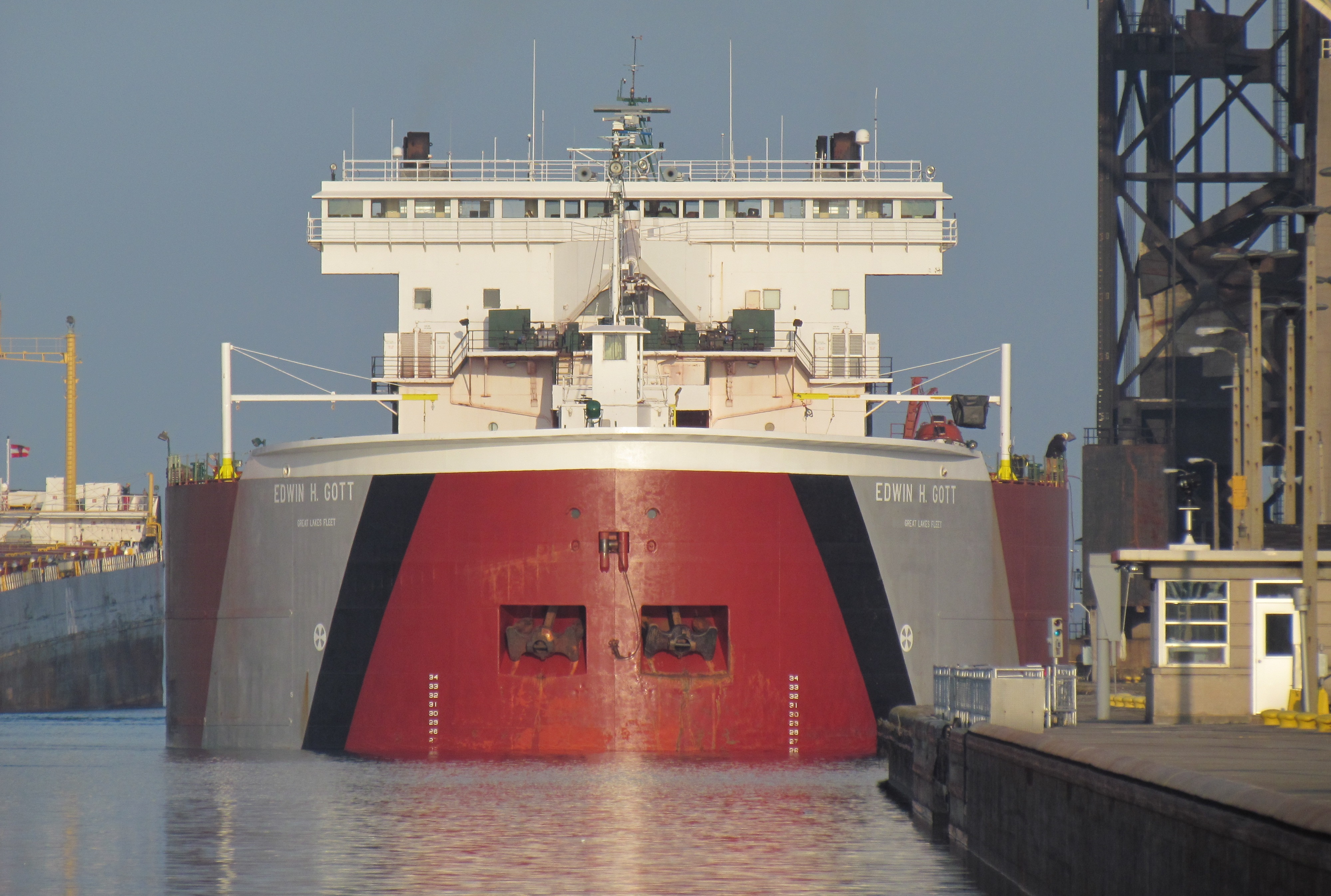 SAULT SAINTE MARIE, Mich. - The 1004 foot long Edwin H. Gott has the most powerful engines of any boat on the Great Lakes generating 19,300 hp. Here she is entering the Poe Lock May 1, 2012. It is a tight fit for the 105 foot wide boat in the 110 foot wide lock. (U.S. Army Corps photograph by Michelle Hill)